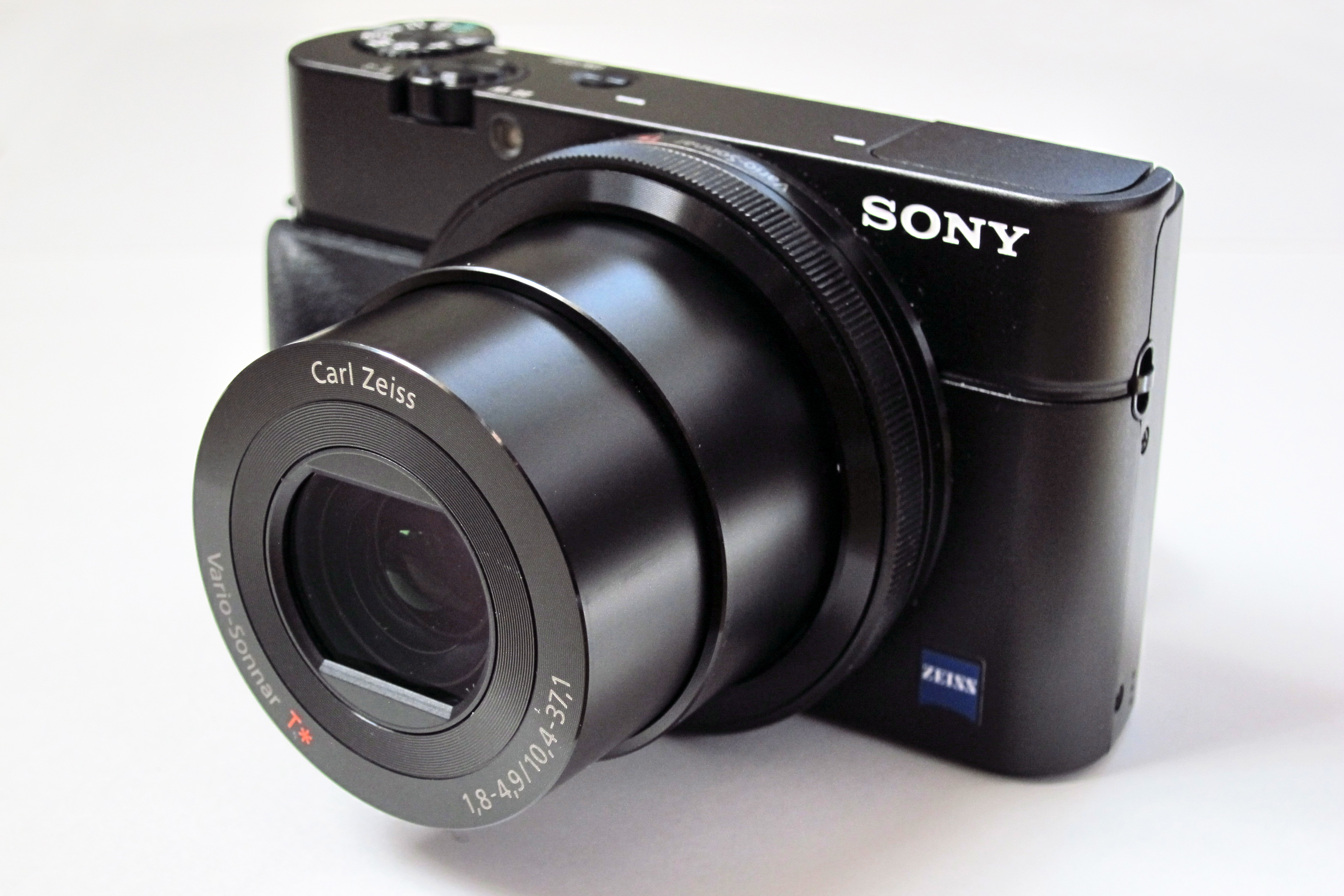 Sony Cyber-shot DSC-RX100